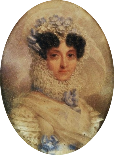 Portrait miniature of Catarina Juliana de Sousa Holstein, 2nd Countess of Linhares (1791-1871)